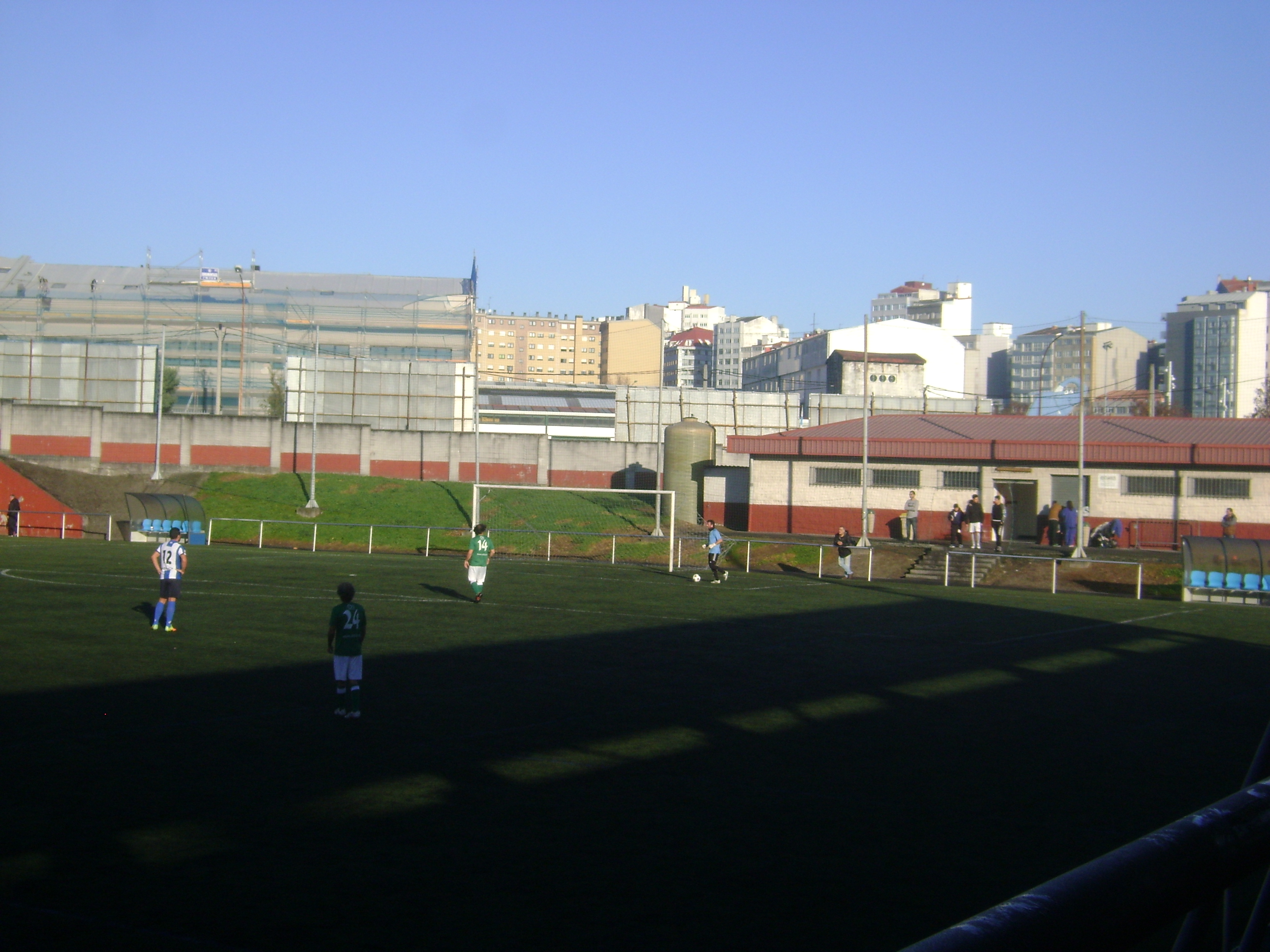 Estadio Arsenio Iglesias